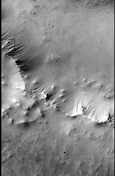 CTX context for gullies in Ross crater. Location is near 33.1 N and 73.9 E.